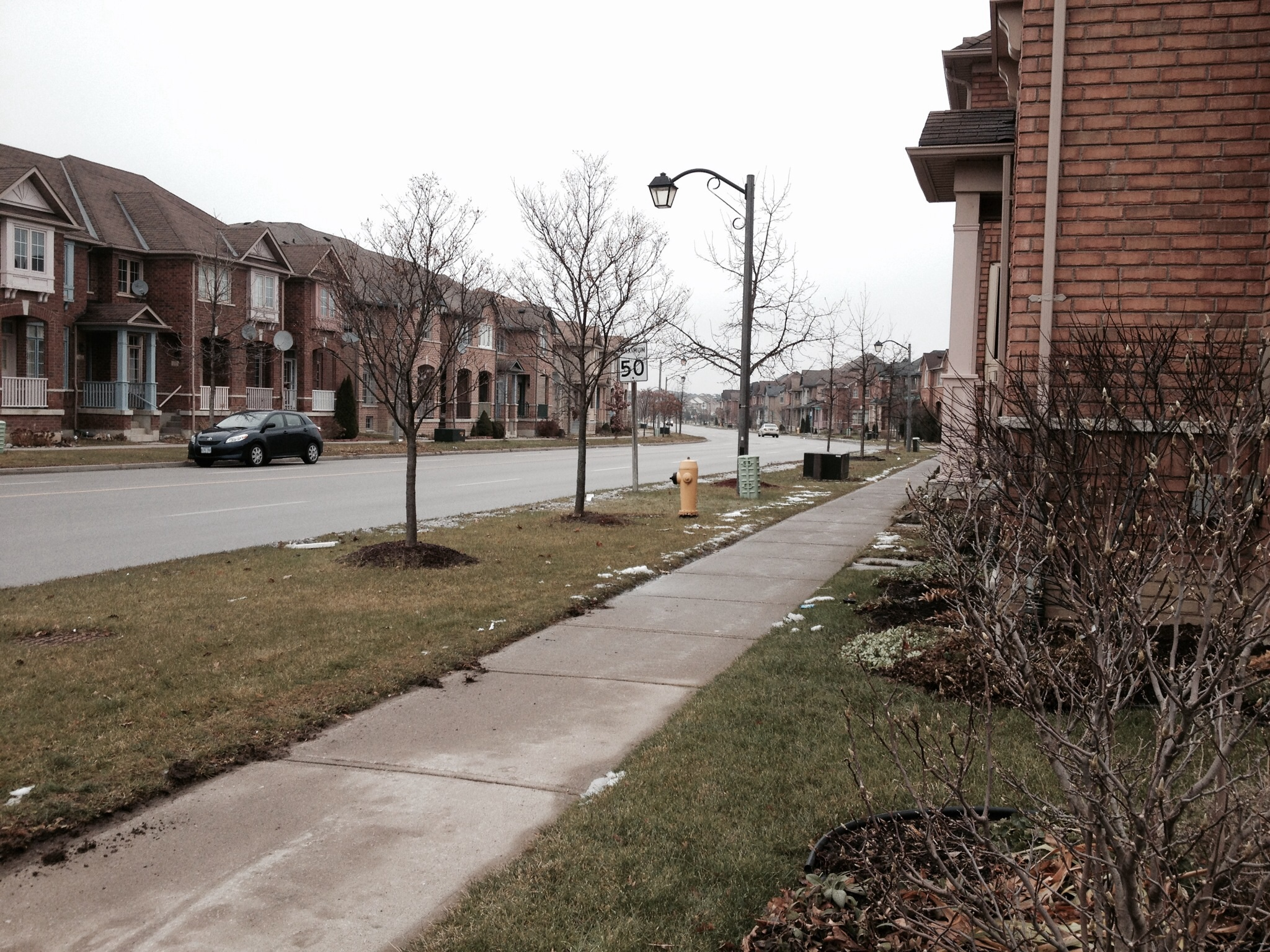 berczy village markham ontario